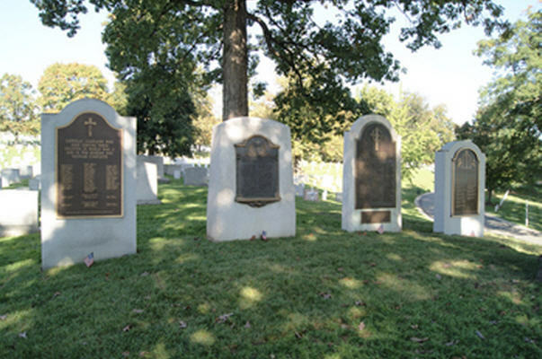 Four monuments to military chaplains who died on active duty, at "Chaplains Hill," Arlington National Cemetery. (Fourth memorial added October 24, 2011.)